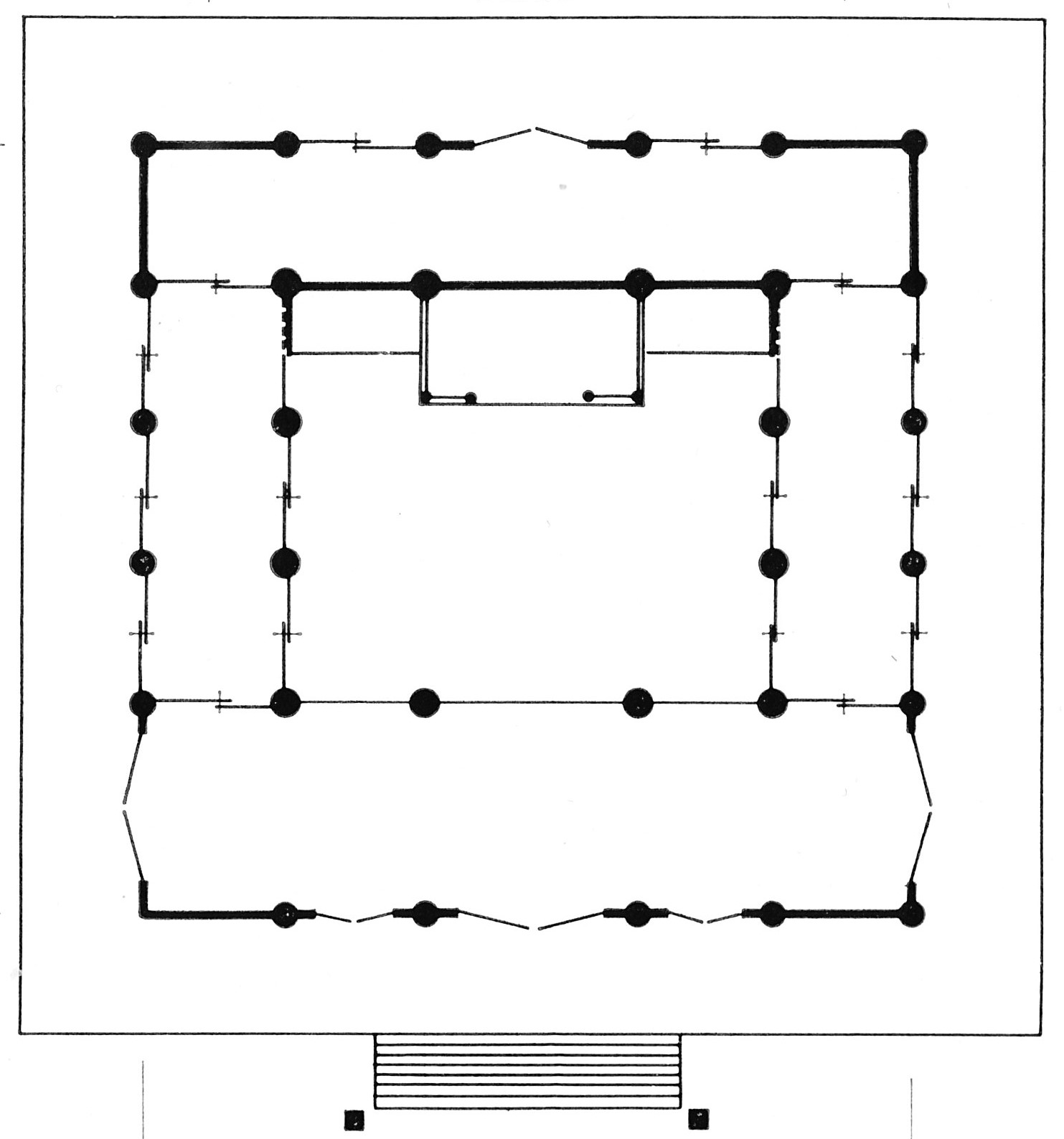 Layout of Chikurin-ji Main Hall